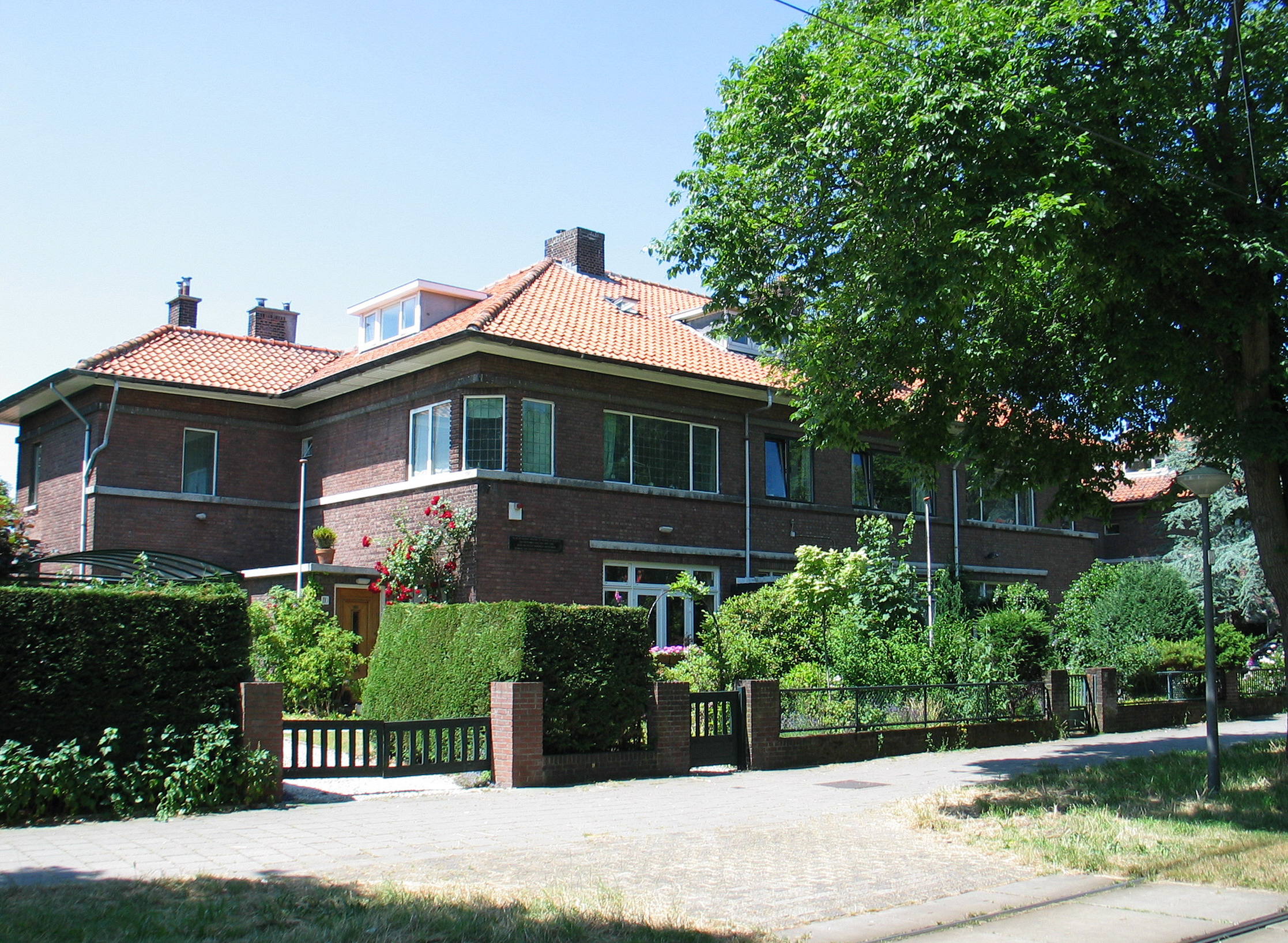 Wilhelmina's house.